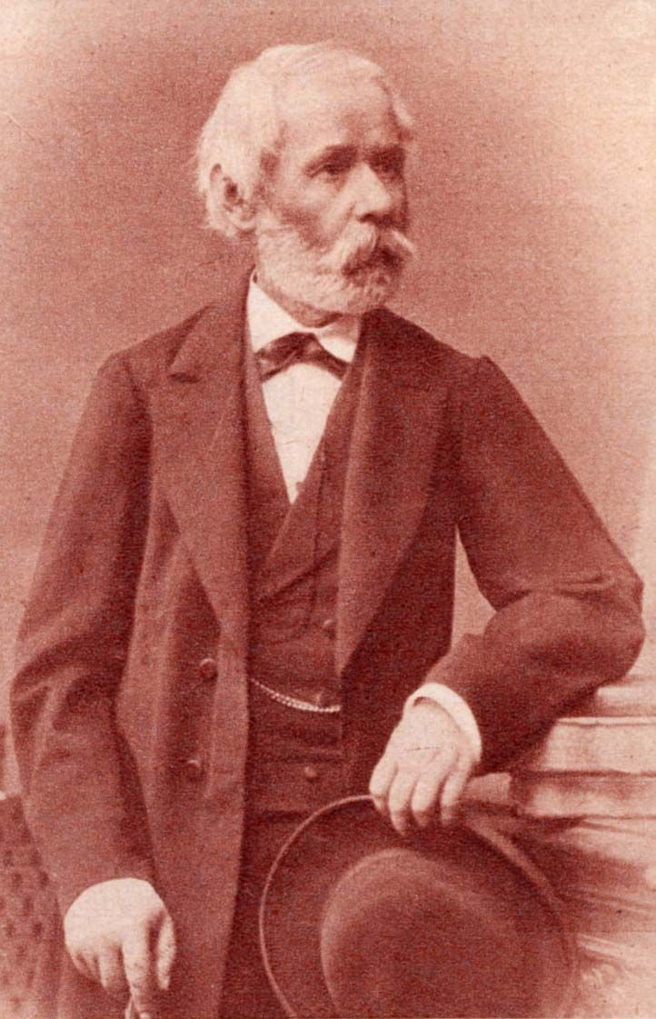 Portrait of János Arany Hungarian poet (1880)